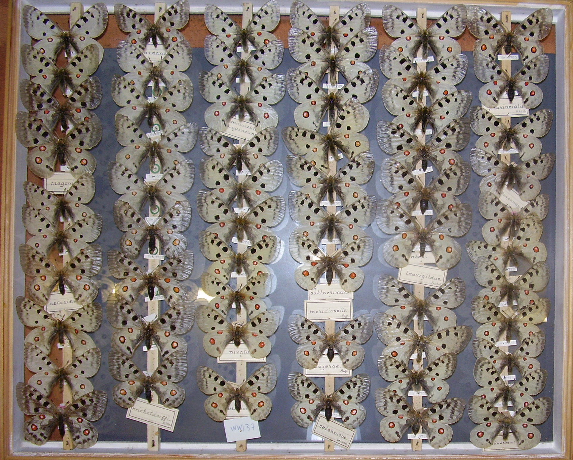 Museum specimens of Paranassius apollo Own photograph